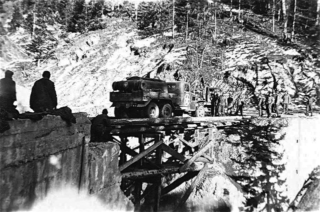 Timber Trestle Bridge erected and being tested by Company A, 1269th Engineer Combat Battalion (mid-January 1945) In the Maritime Alps near Piera-Cava, France. The bridge was dedicated in honor of Pfc. George I. Bernay First among our unit to be killed in action (on 7 Dec. 1944)